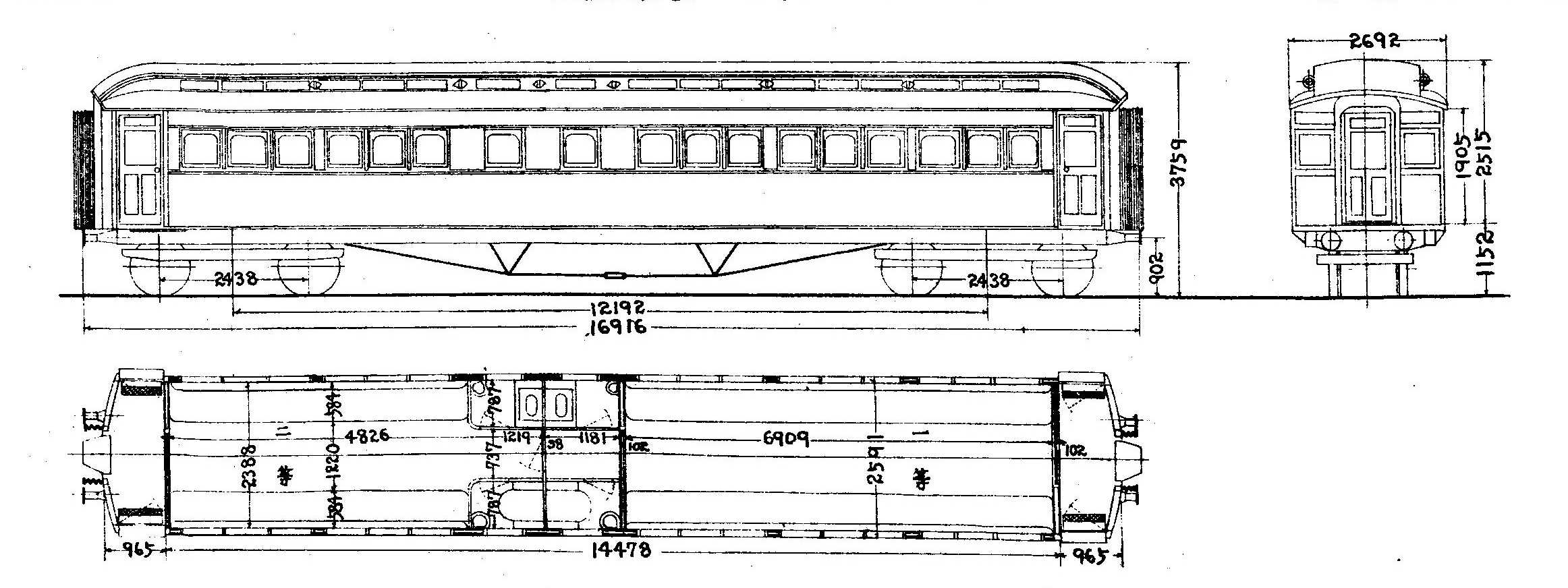 Type drawing of JGR's Hoiro5150 type passenger car (Gubusha Nos.120, 121)